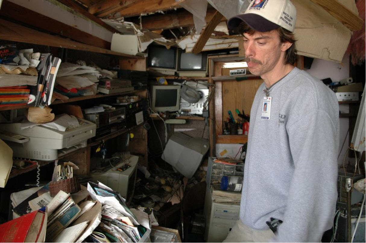 Brice Phillips in his home studio for WQRZ-LP, a community radio station that provided emergency information in the wake of Hurricane Katrina in Mississippi during 2006. The photo was taken by Mark Wolfe on behalf of the Federal Emergency Management Agency (FEMA). URL: Intended article